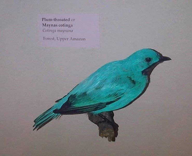 Taxidermied Plum-throated Cotinga (Cotinga maynana) at the Natural History Museum in London, England.